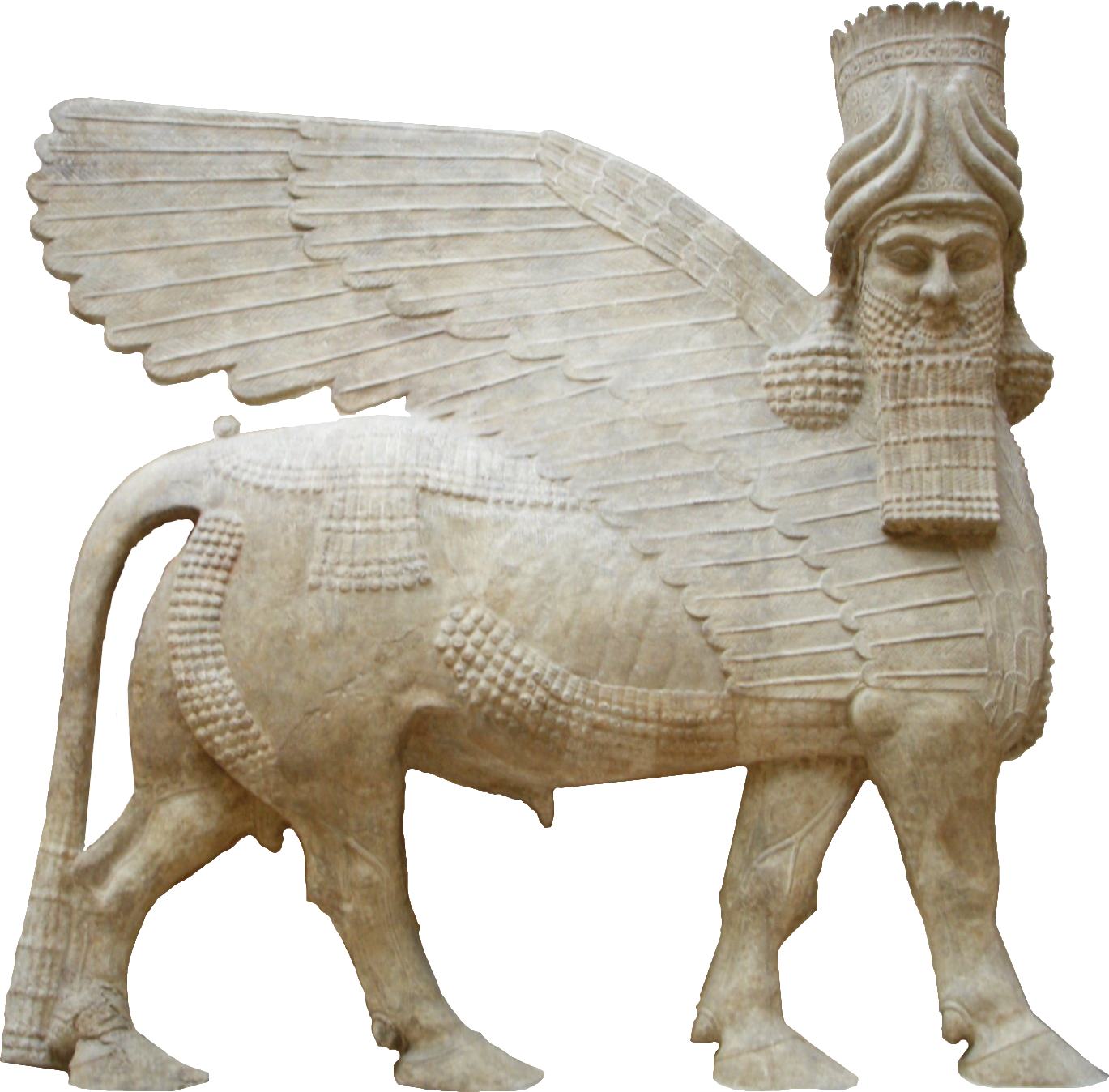 Human-headed winged bull facing. Bas-relief from the m wall, k door, of king Sargon II's palace at Dur Sharrukin in Assyria (now Khorsabad in Iraq), c. 713–716 BC. From Paul-Émile Botta's excavations in 1843–1844..